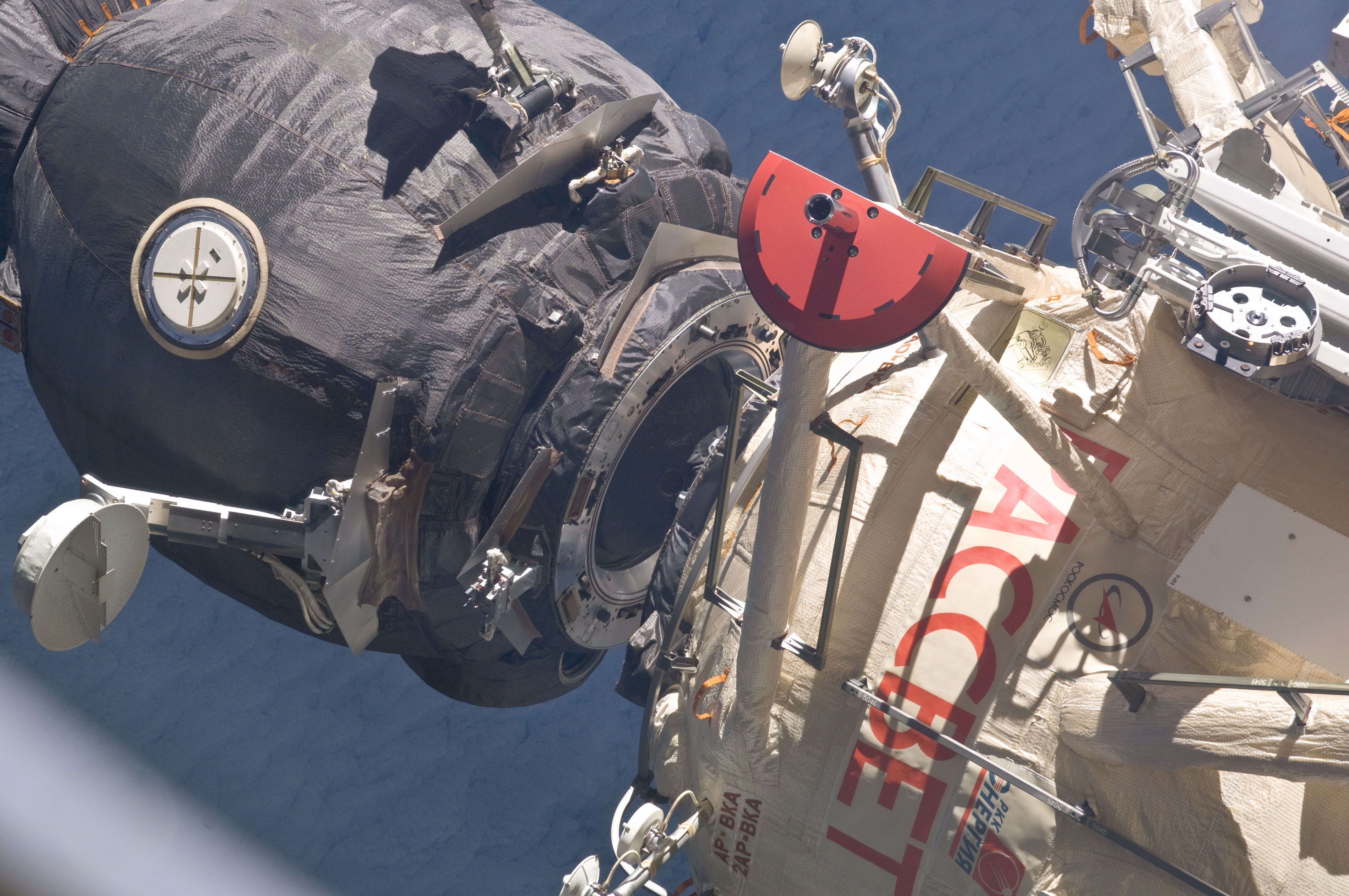 The Soyuz TMA-19 spacecraft docks to the Rassvet Mini-Research Module 1 (MRM1) of the International Space Station. Russian cosmonaut Fyodor Yurchikhin; along with NASA astronauts Doug Wheelock and Shannon Walker, all Expedition 24 flight engineers, undocked their Soyuz spacecraft from Zvezda Service Module's aft port at 3:13 pm. (EDT) on June 28, 2010, and docked it to its new location on the recently installed Rassvet module 25 minutes later.